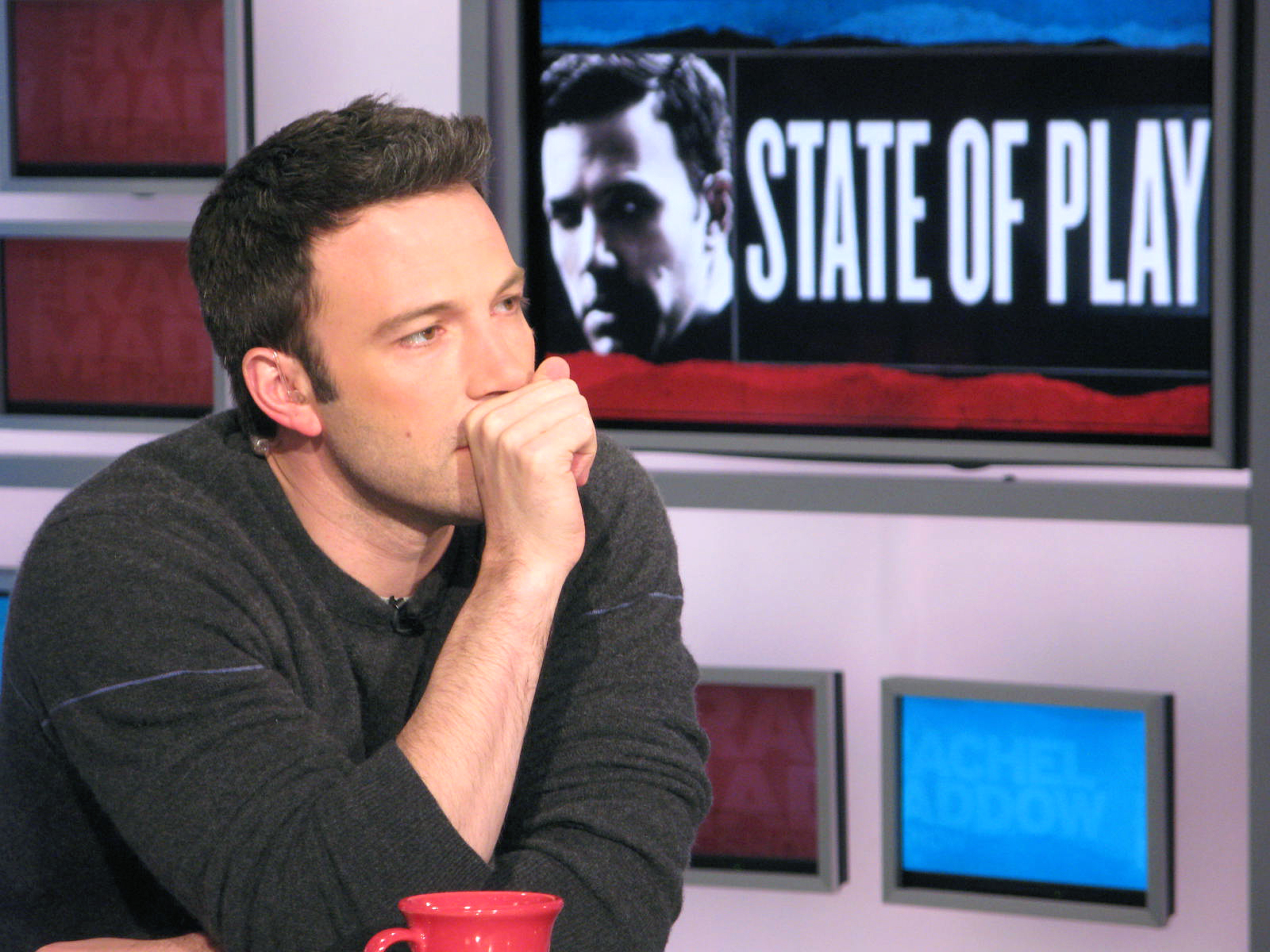 Affleck at the MSNBC studios on the set of The Rachel Maddow Show